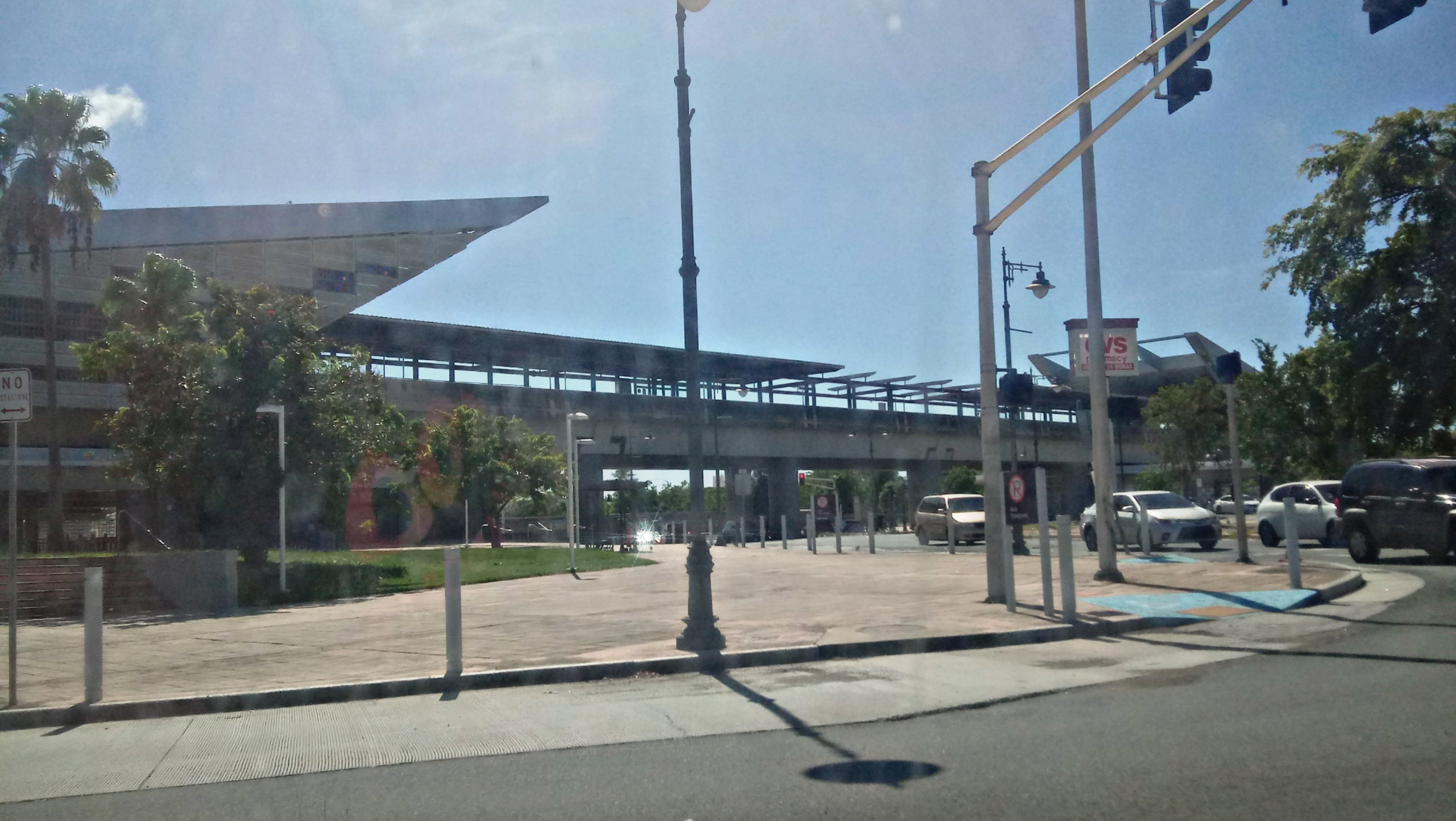 Sagrado Corazon train station in Santurce, San Juan, Puerto Rico